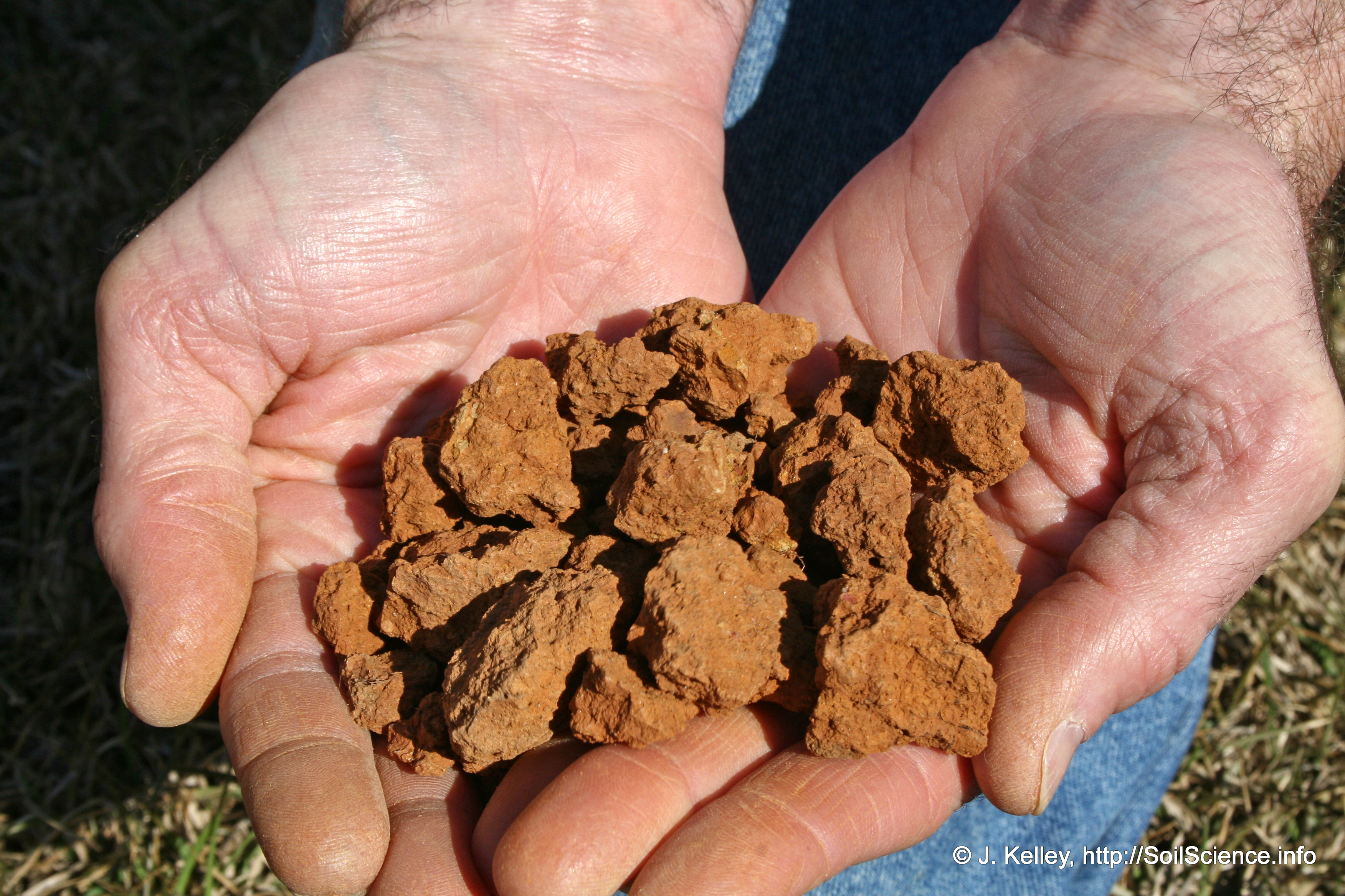 (from author) "Sand, silt, clay and organic matter bind together to provide stucture to the soil. The individual units of structure are called peds."